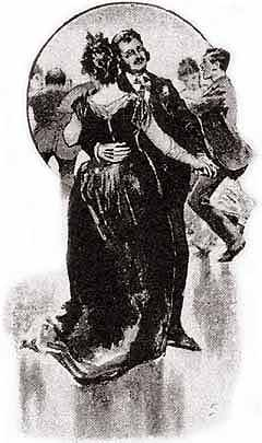 Illustration of the Sherlock Holmes short story A Case of Identity, which appeared in The Strand Magazine in September, 1891. Original caption was "AT THE GASFITTERS' BALL."